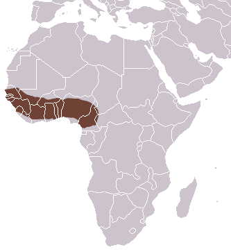 Haussa Genet (Genetta thierryi) range